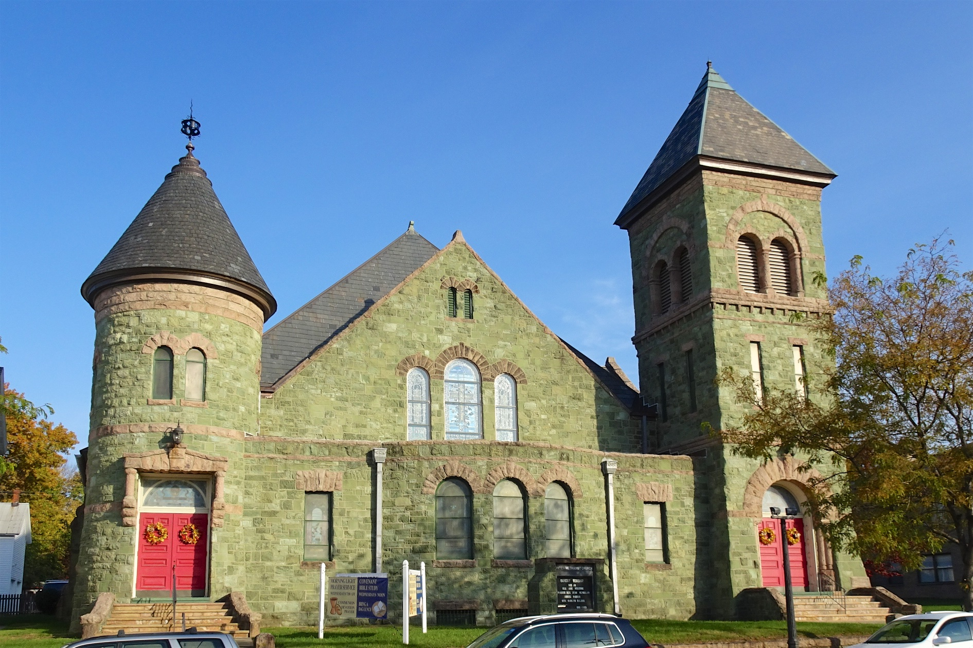 United Methodist Church in the borough of Washington, New Jersey in Warren County. Historic name was the First Methodist Episcopal Church.